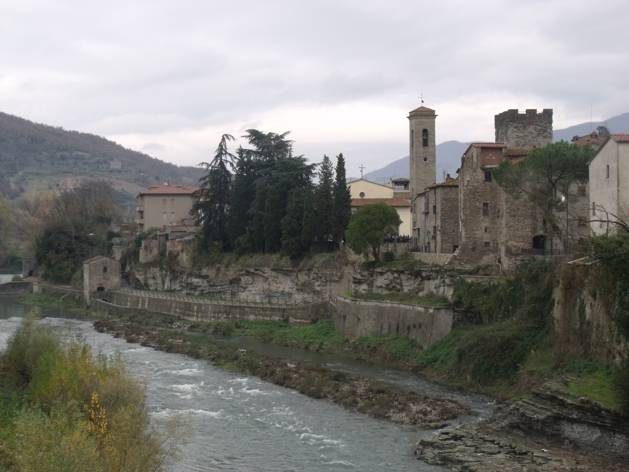 View on Subbiano and River Arno, Province of Arezzo, Tuscany, Italy